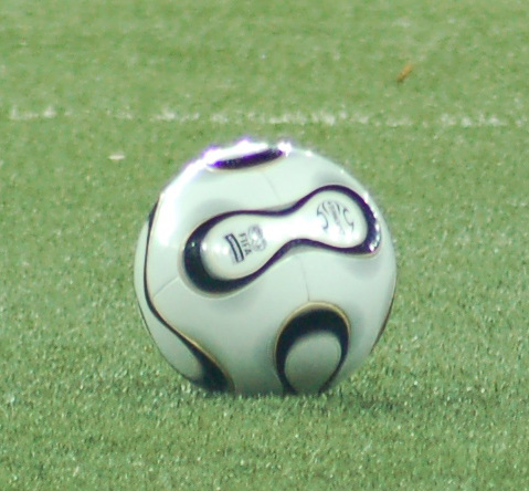 Teamgeist (official ball of the FIFA World Cup 2006), first use in an official game; Red Bull Salzburg vs. Rapid Wien (Austrian Football Bundesliga), EM-Stadion Wals-Siezenheim in Salzburg